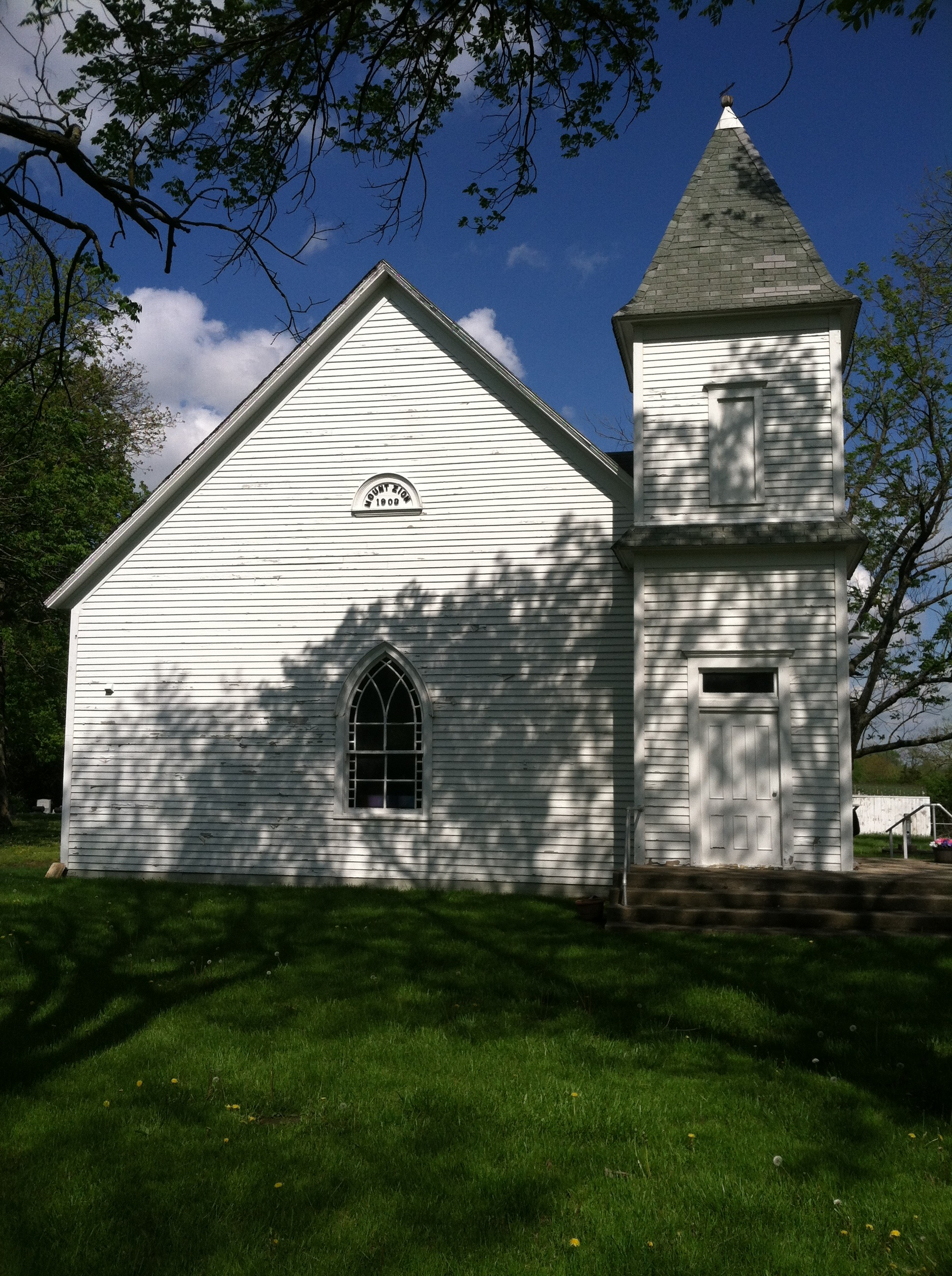 West (front) side of Mt. Zion Church in rural Boone County, Missouri